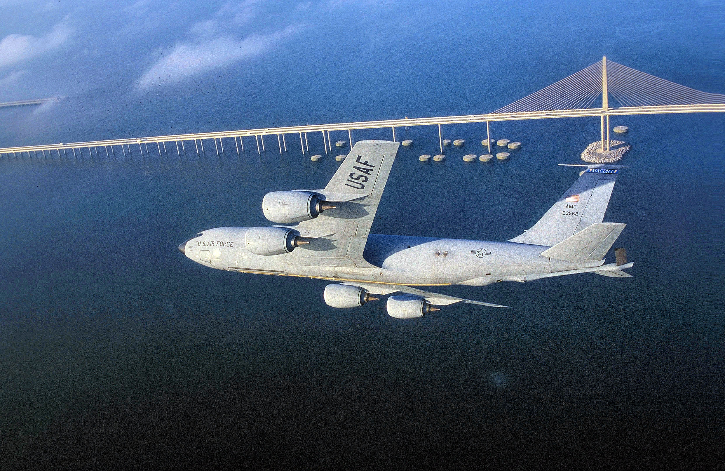 A KC-135R Stratotanker assigned to the 6th Air Refueling Wing, 91st Air Refueling Squadron, at MacDill Air Force Base, Fla., flies a training mission over central Florida. The KC-135's principal mission is air refueling. This asset greatly enhances the U. S. Air Force's capability to accomplish its mission of Global Engagement. It also provides aerial refueling support to U.S. Navy, U.S. Marine Corps and allied aircraft. Four turbofans, mounted under 35-degree swept wings, power the KC-135 to takeoffs at gross weights up to 322,500 pounds. Nearly all internal fuel can be pumped through the tanker's flying boom, the KC-135's primary fuel transfer method. A special shuttlecock-shaped drogue, attached to and trailed behind the flying boom, may be used to refuel aircraft fitted with probes. (U.S. Air Force photo by Master Sgt. Keith Reed)